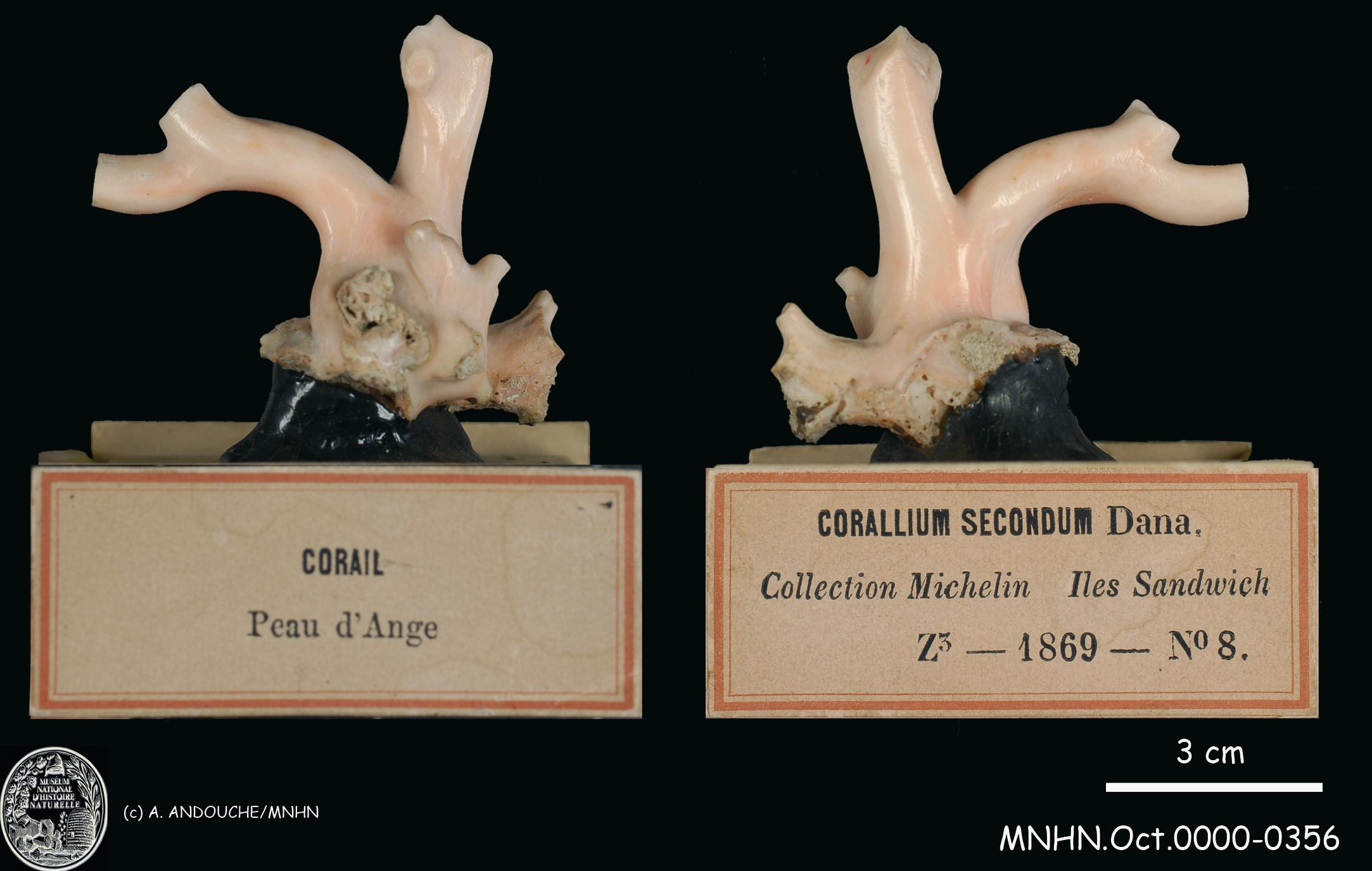 PRESERVED_SPECIMEN; Individual Count:; Type status:; Corallium secundum (Dana, 1846); ; Identified by: Inconnu